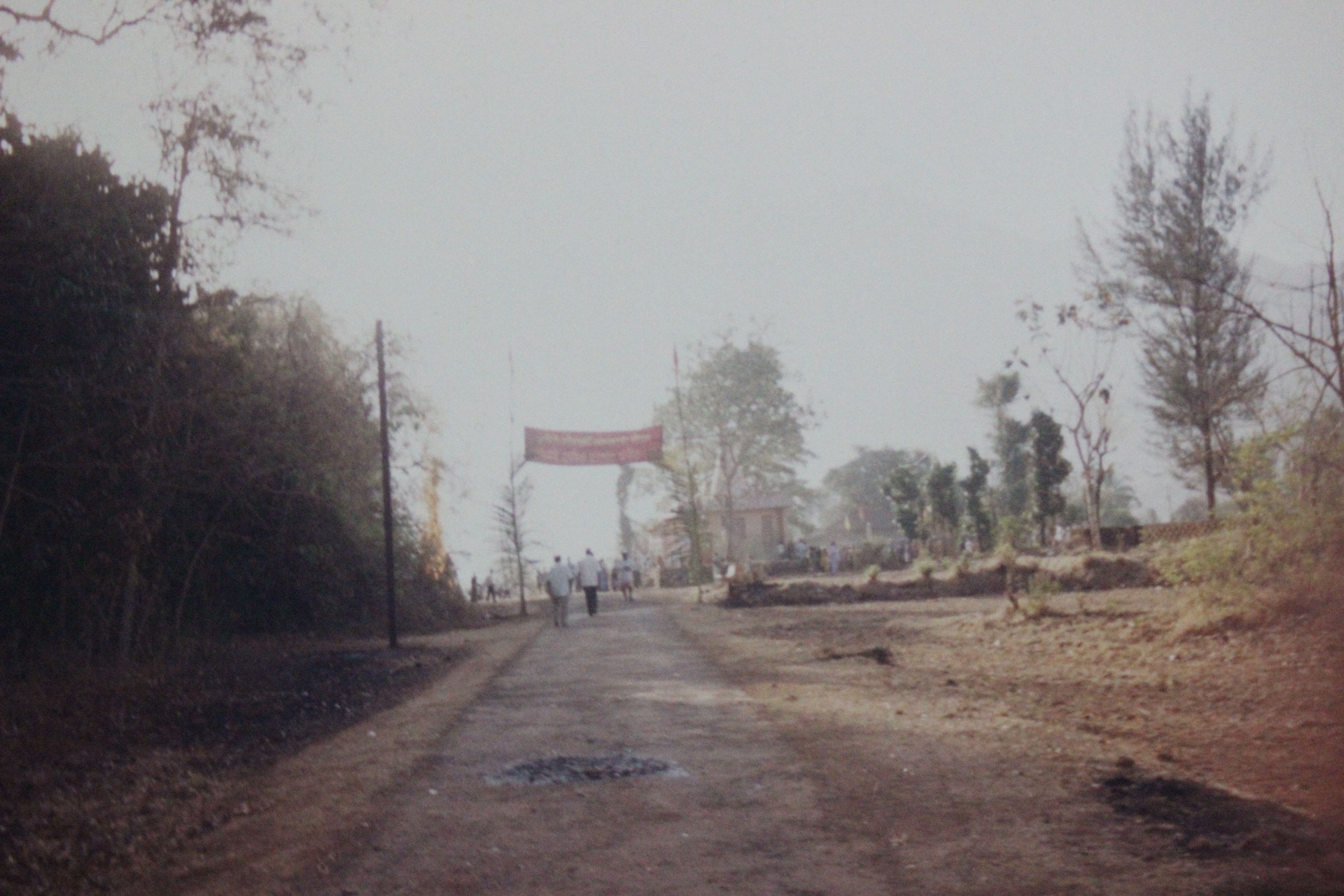 This photo file is a sceneic view of Ovali Village in Chiplun Taluka, Ratnagiri District Maharashtra.The village is situated in the foot hills of the tallest peak of Sahyadri Mountain.